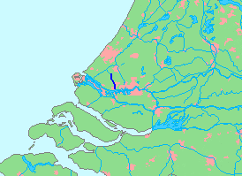 Location of a waterway (river/canal) in the Netherlends